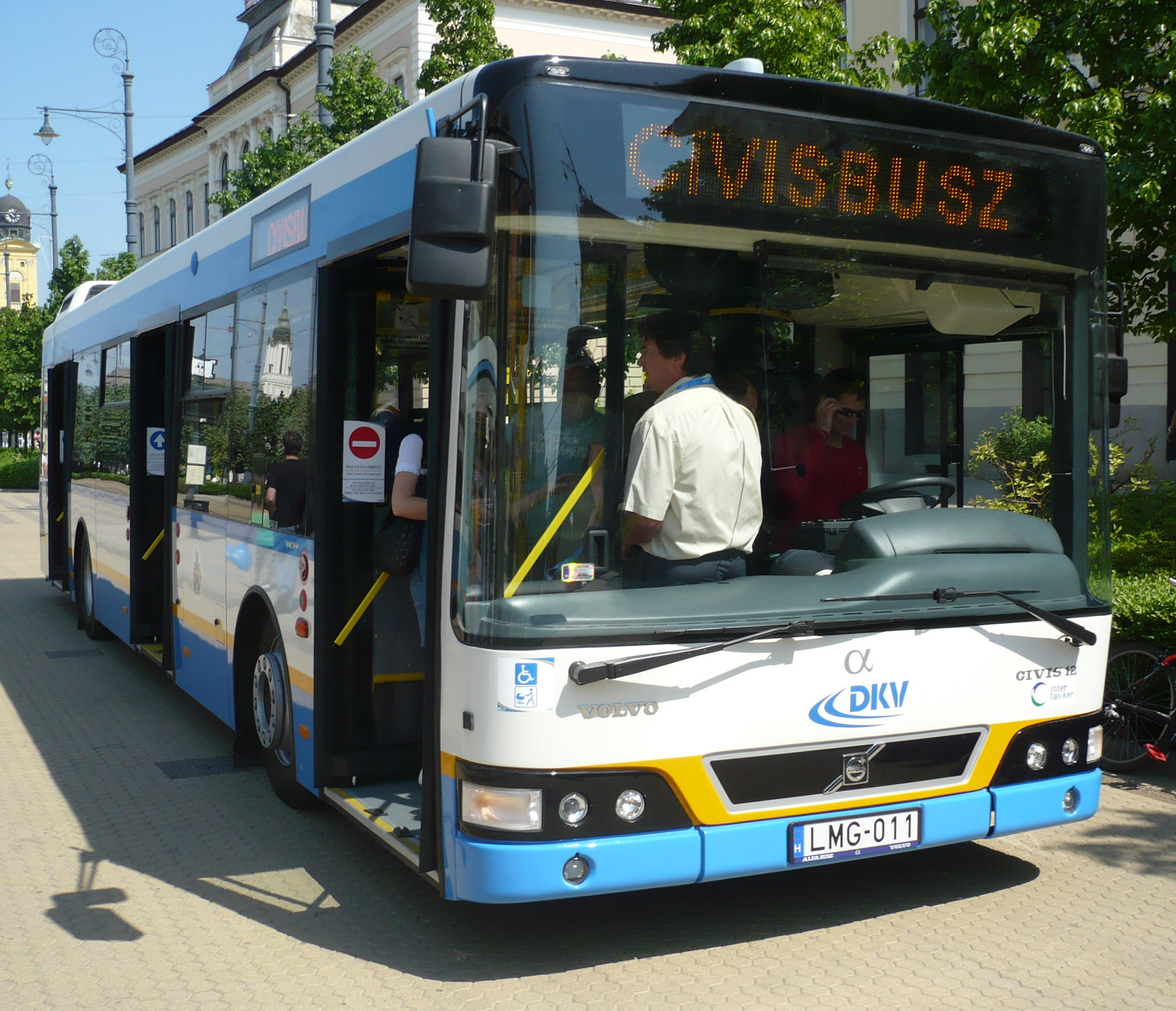 Volvo ALFA CIVIS 12 bus in Debrecen, Hungary. Volvo B9L chassis.